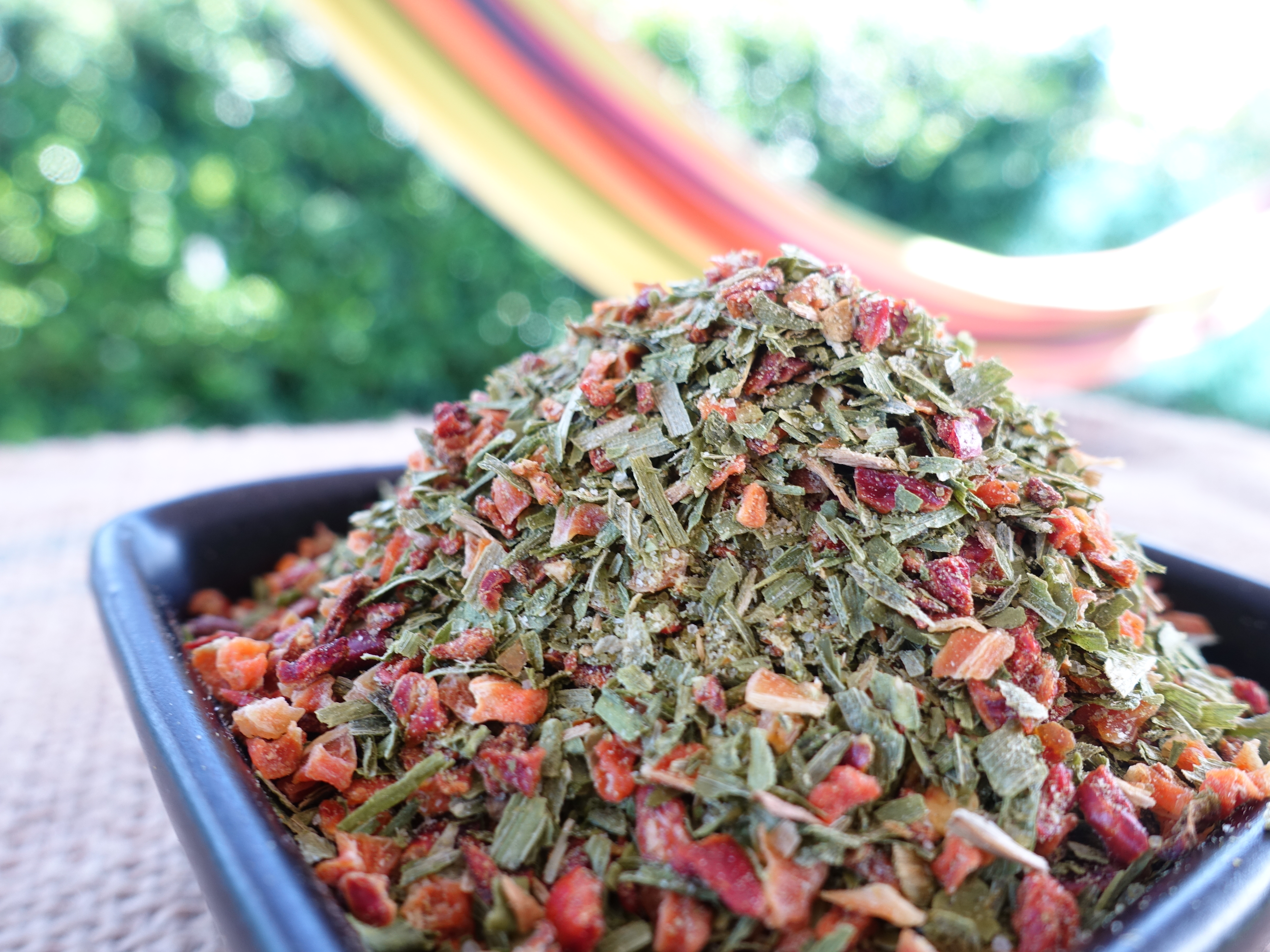 Spice mix Marie-Galante - Spices from the west indies.